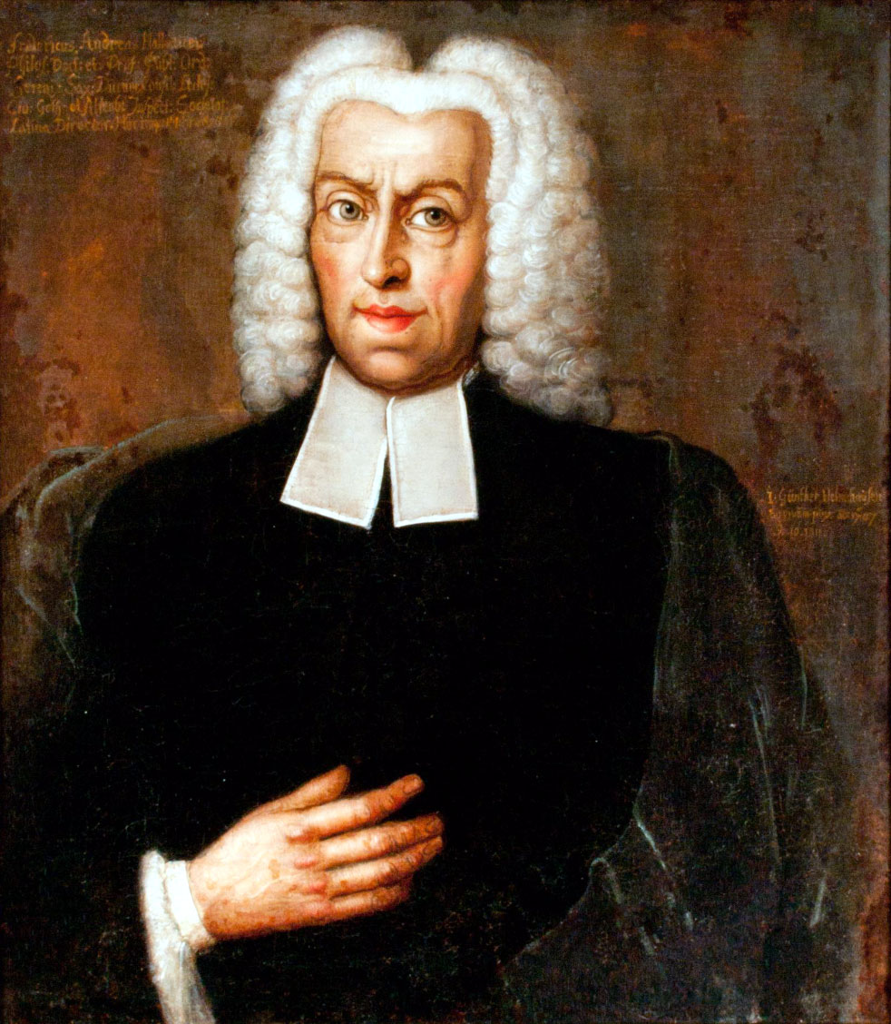 Friedrich Andreas Hallbauer (1692-1750) german protestant Theologian